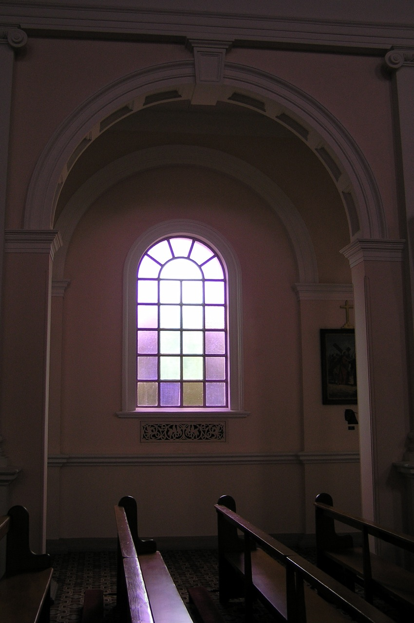 Wellington Catholic Cathedral